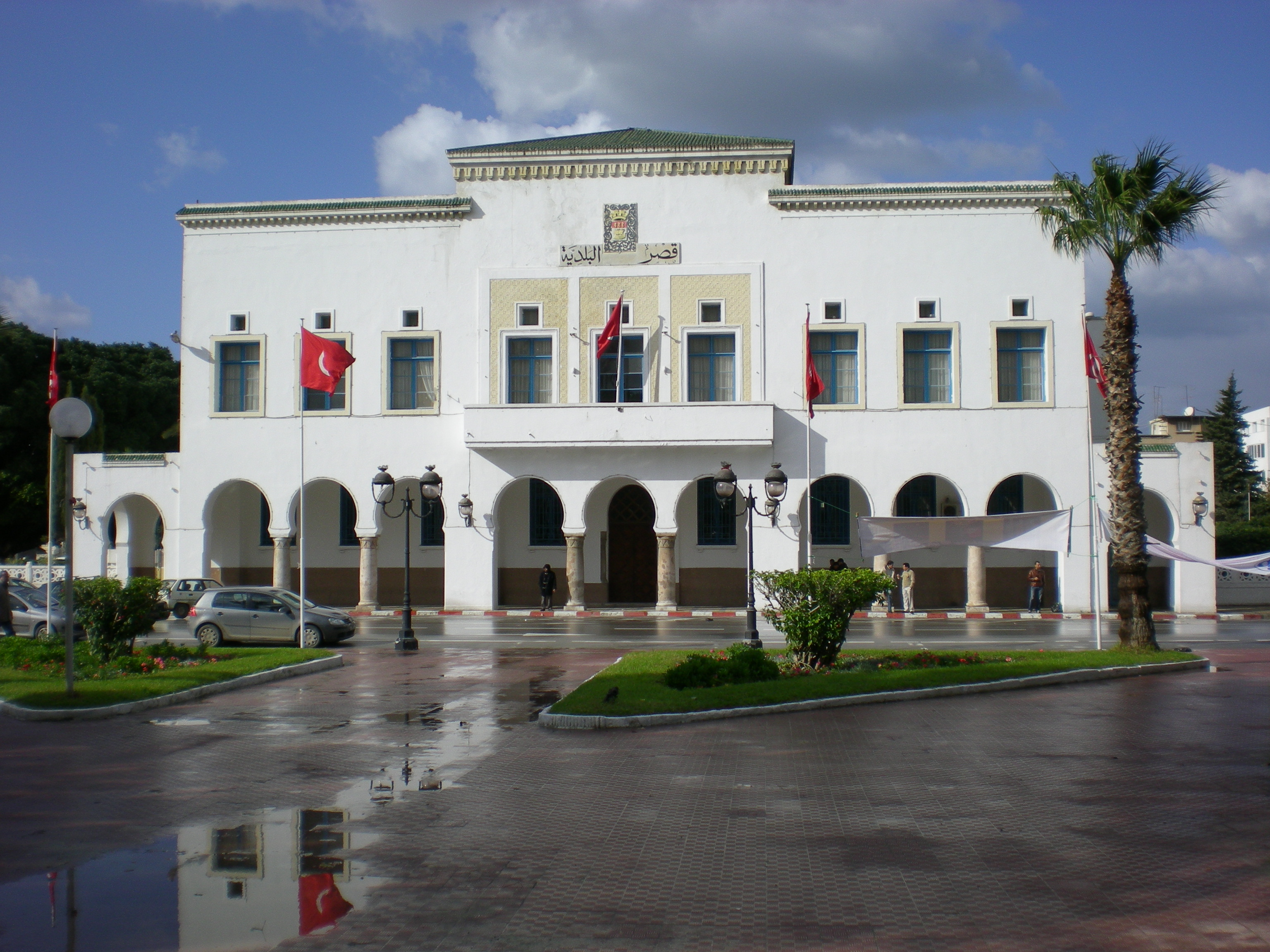 Bizerte's City Hall.